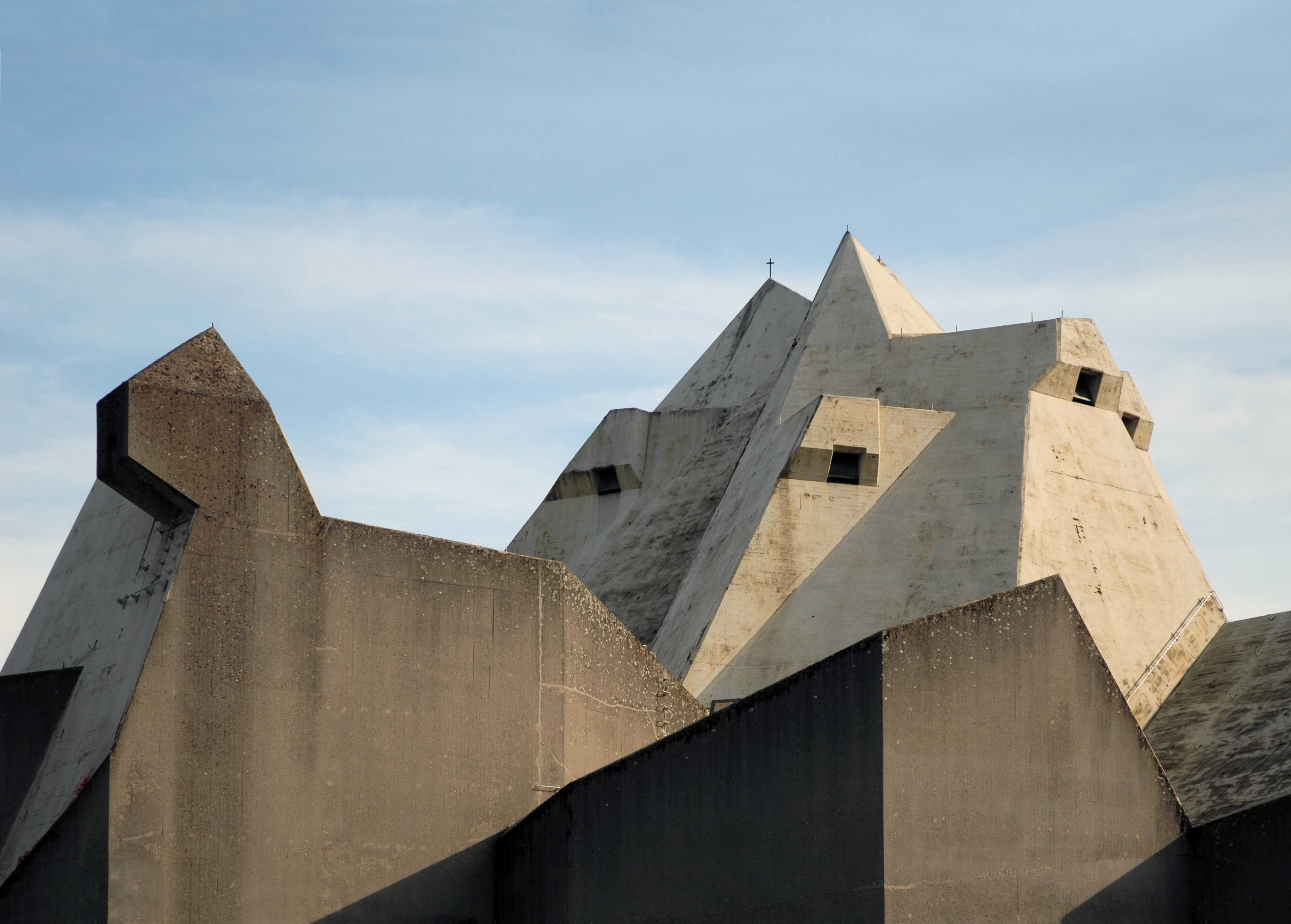 Pilgrimage church, Maria Königin des Friedens, Neviges, Germany. 1963-1972. Architect: Gottfried Böhm